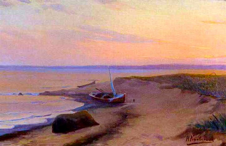 Painting by Nikolai Ivanovich Kravchenko